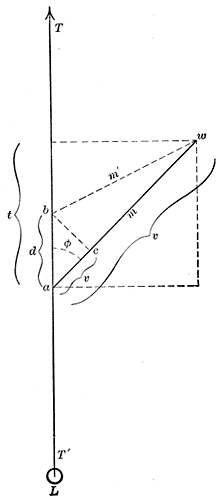 No caption